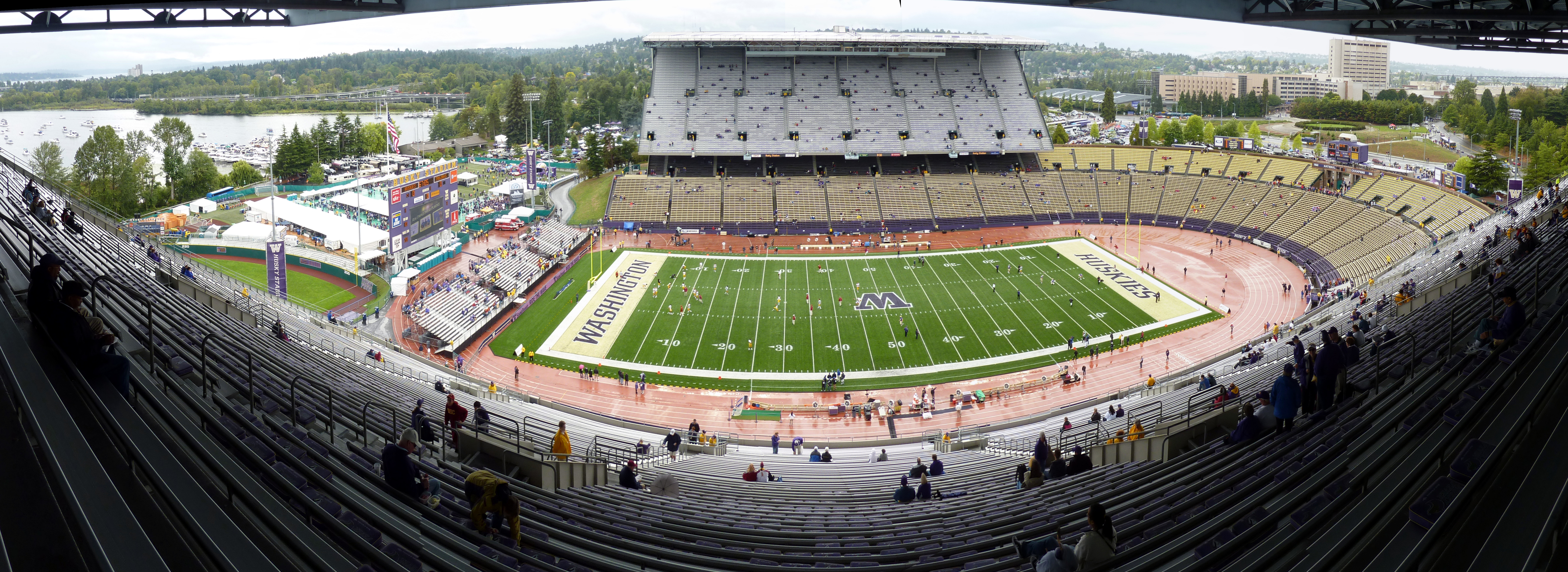 Pre-game of a college football match between the visiting No. 3 USC Trojans and the Washington Huskies at Husky Stadium on September 19, 2009. The Huskies would win in an upset, 16–13.